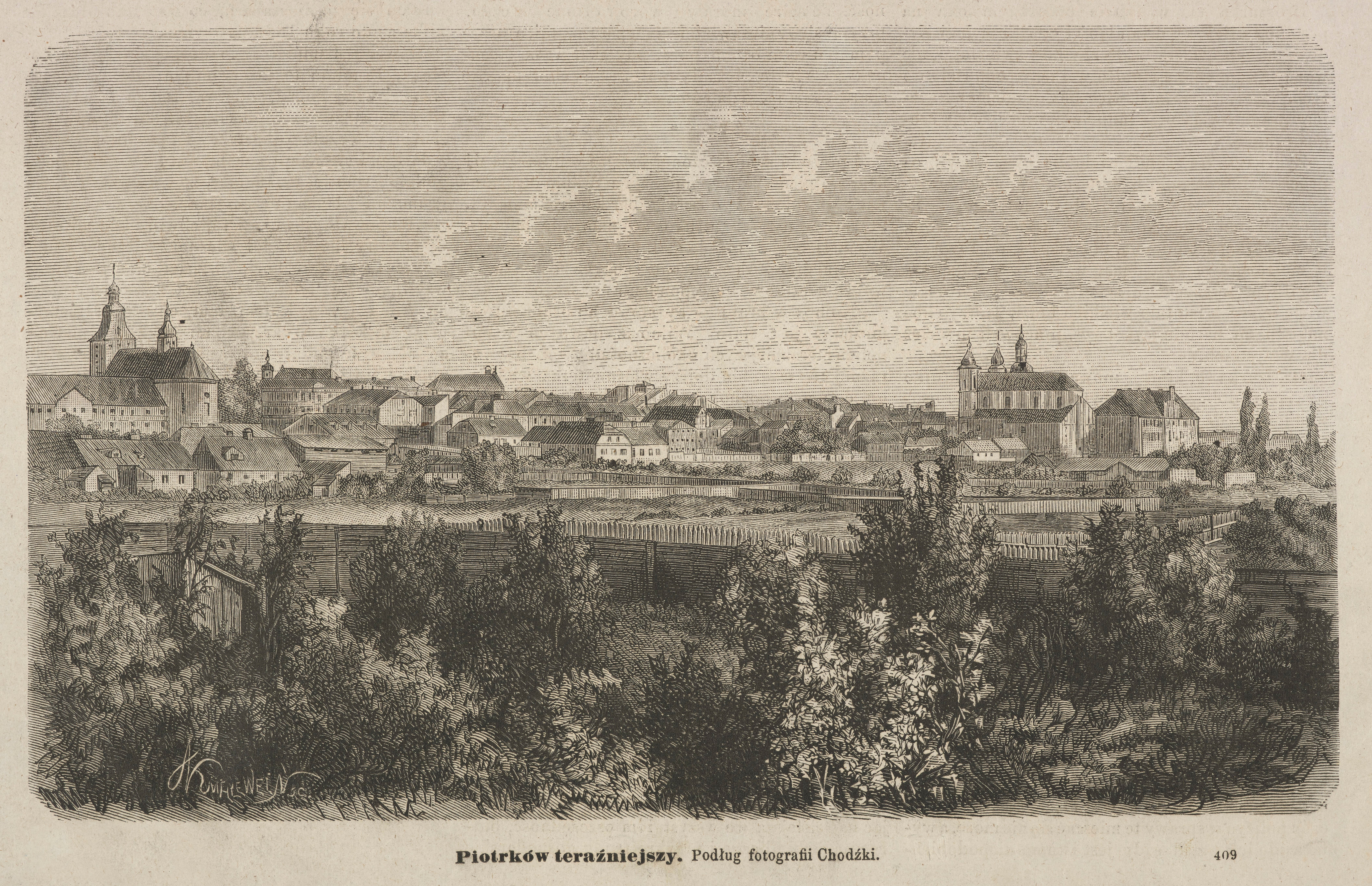 Panoram Piotrkowa Trybunalskiego przed 1877.